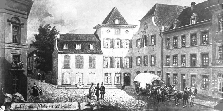 Ecke, Paul, Bankhaus Stein am Laurenzplatz, Öl&Leinwand, 1912